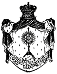 Print with the old emblem of the Congregation of Priests of the Most Blessed Sacrament order, ca. 1870.